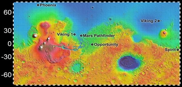 Six landing sites on planet Mars, including Phoenix, Viking 1, Mars Pathfinder, Opportunity, Viking 2 landers. The landing site chosen for NASA's Mars Phoenix Lander, at about 68 degrees north latitude, is much farther north than the sites where previous spacecraft have landed on Mars. Color coding on this map indicates relative elevations based on data from the Mars Orbiter Laser Altimeter on NASA's Mars Global Surveyor. Red is higher elevation; blue is lower elevation. In longitude, the map extends from 70 degrees (north) to minus 70 degrees (south).